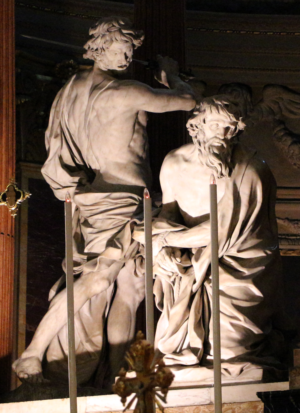 San Paolo Decollato (Bologna)